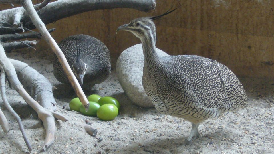 Picture of eudromia elegans and eggs